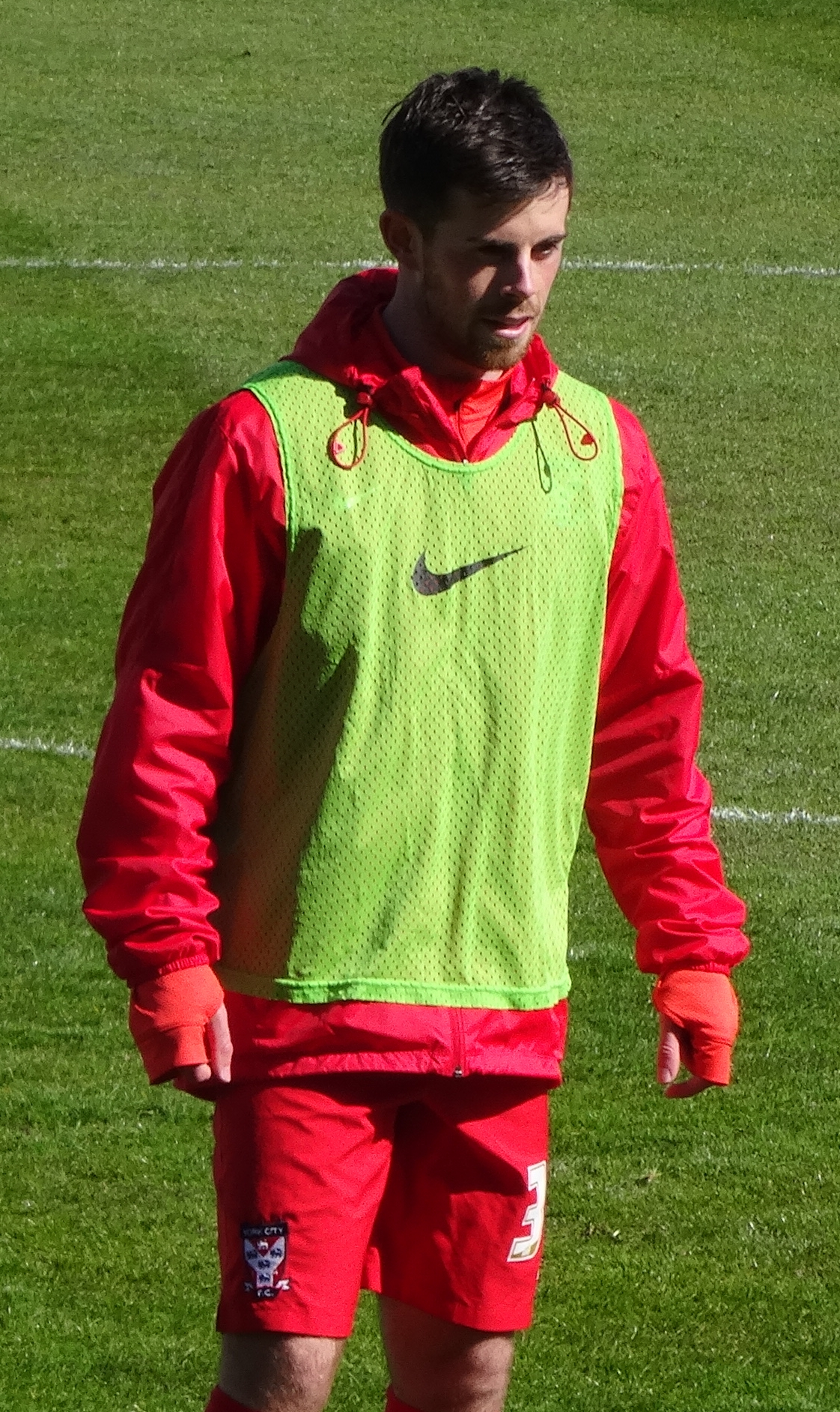 Kenny McEvoy training with York City during half-time against Bristol Rovers at Bootham Crescent, York on 30 April 2016